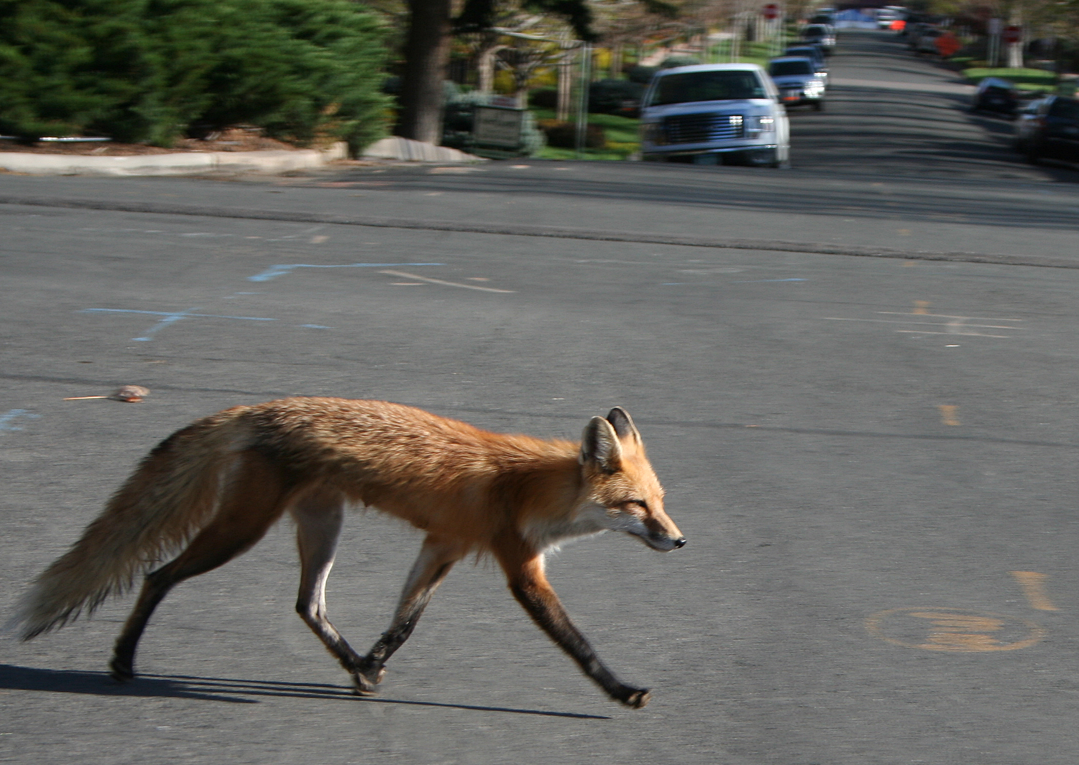 A Red fox crossing a street.